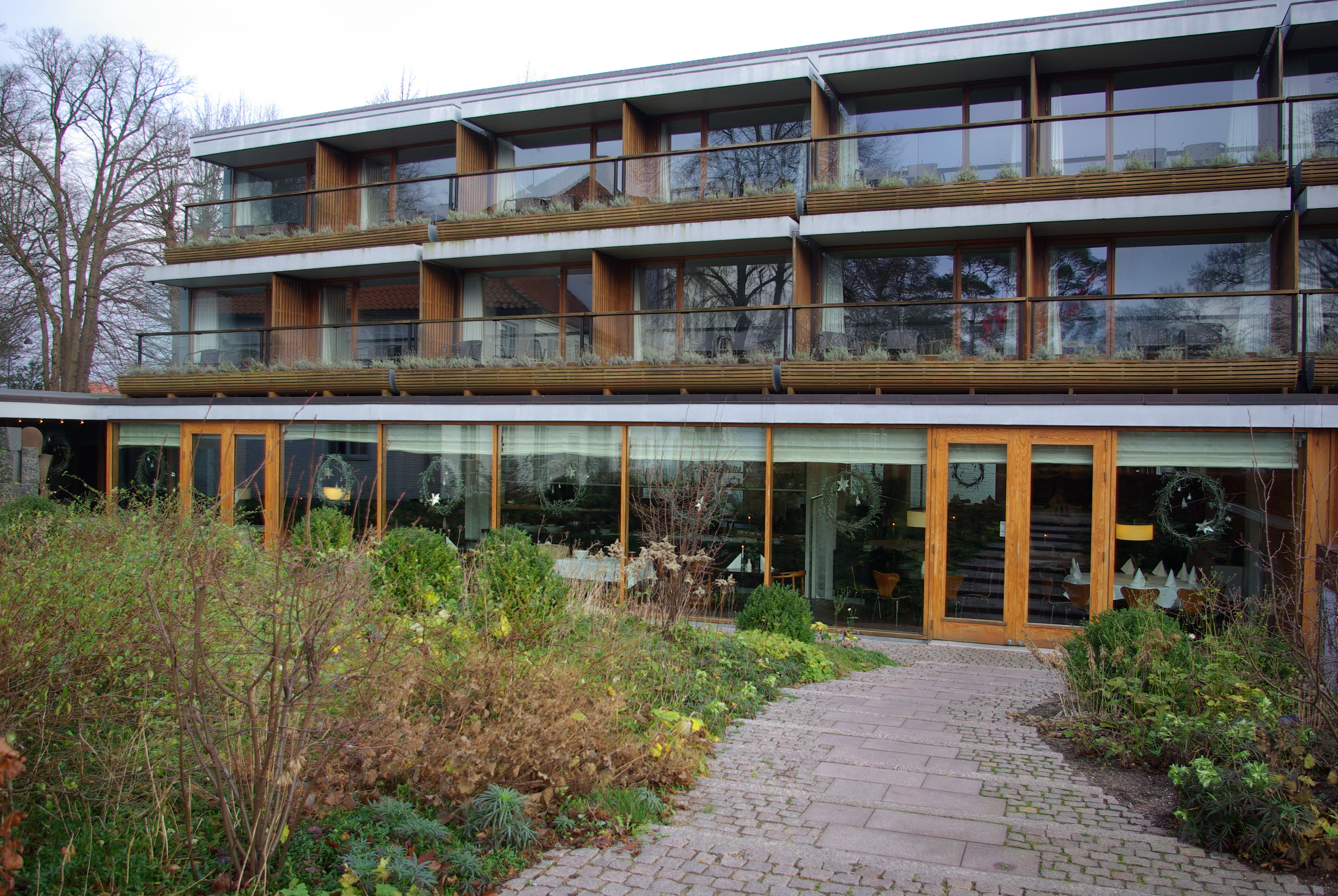 Schæffergården: Wohlerts fløy